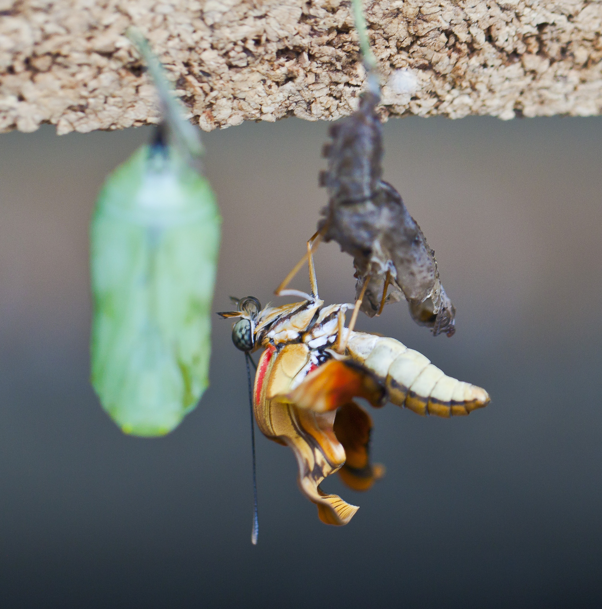 Birth of a Dryas iulia, Butterfly zoo of Icod de los Vinos, Tenerife, Spain